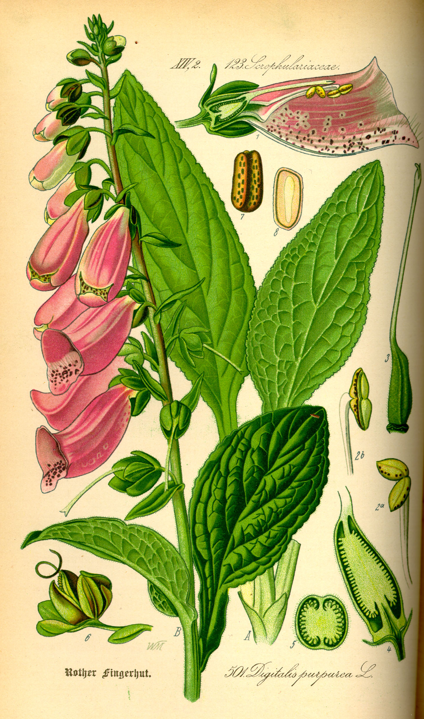 Digitalis purpurea Family:Scrophulariaceae